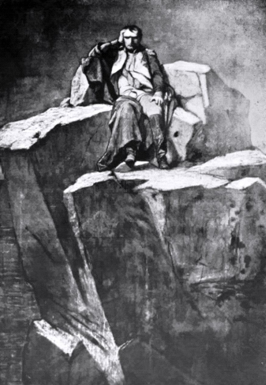 Napoleon in exile at St. Helena